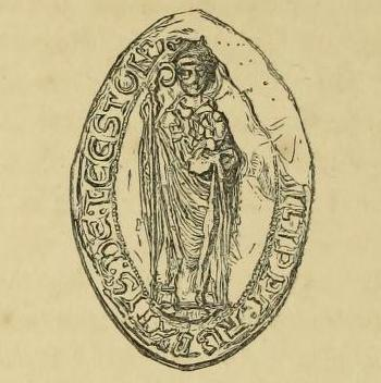 Woodcut of the seal of Abbot Philip of Leiston Abbey, Suffolk (flourished 1216), after Alfred Suckling.